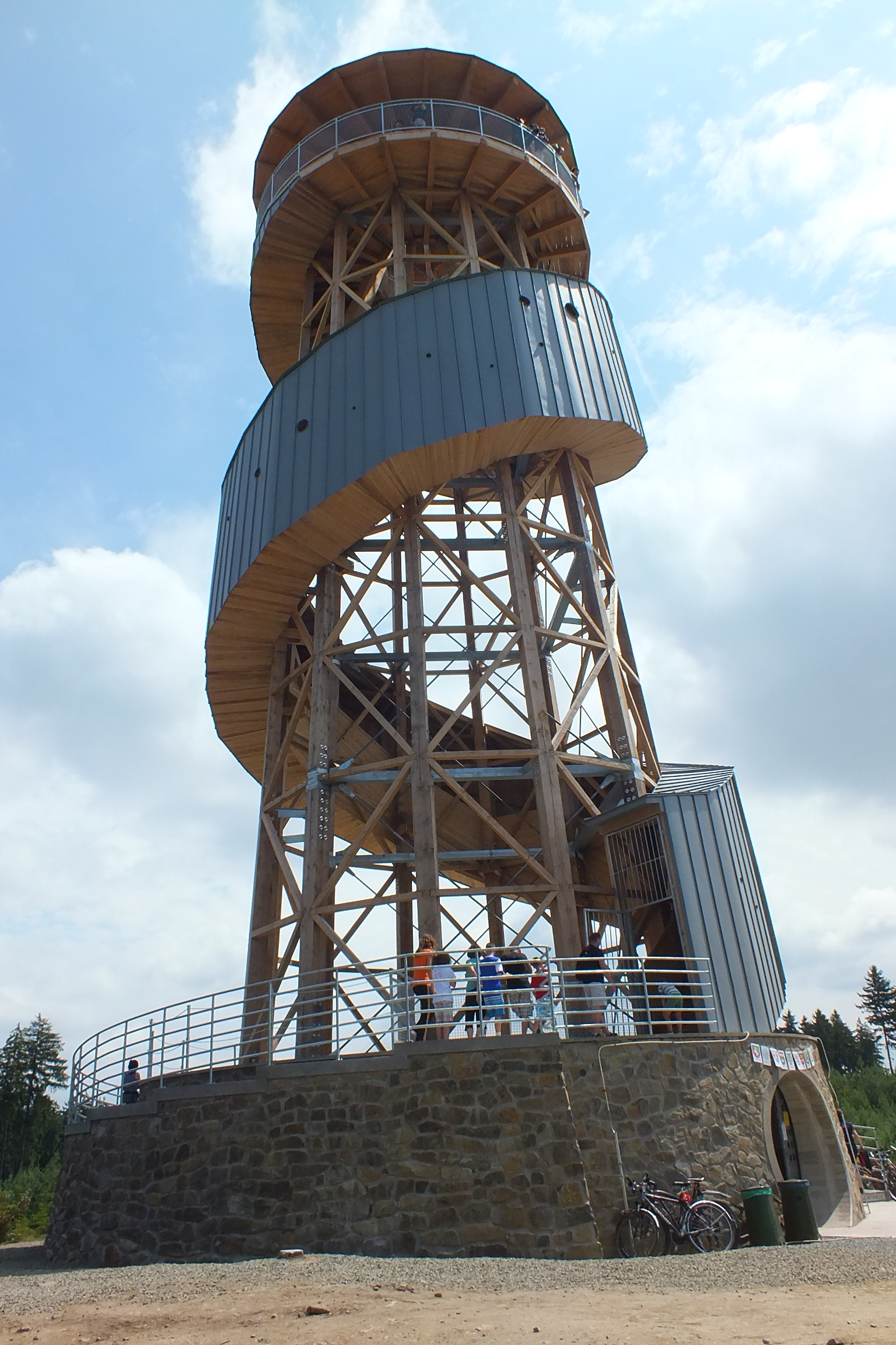 Observation tower on the top of Velký Kosíř, Czech Republic.